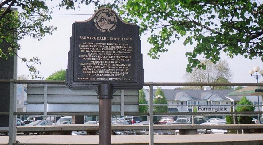 Close-up of the Historical marker for the Farmingdale (LIRR station) in Farmingdale, New York. This marker is sponsored by the Farmingdale-Bethpage Historical Society.